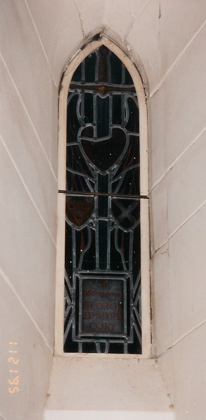 The George Edward Cory Memorial window at Cathedral of Saints Michael and George, Grahamstown, South Africa